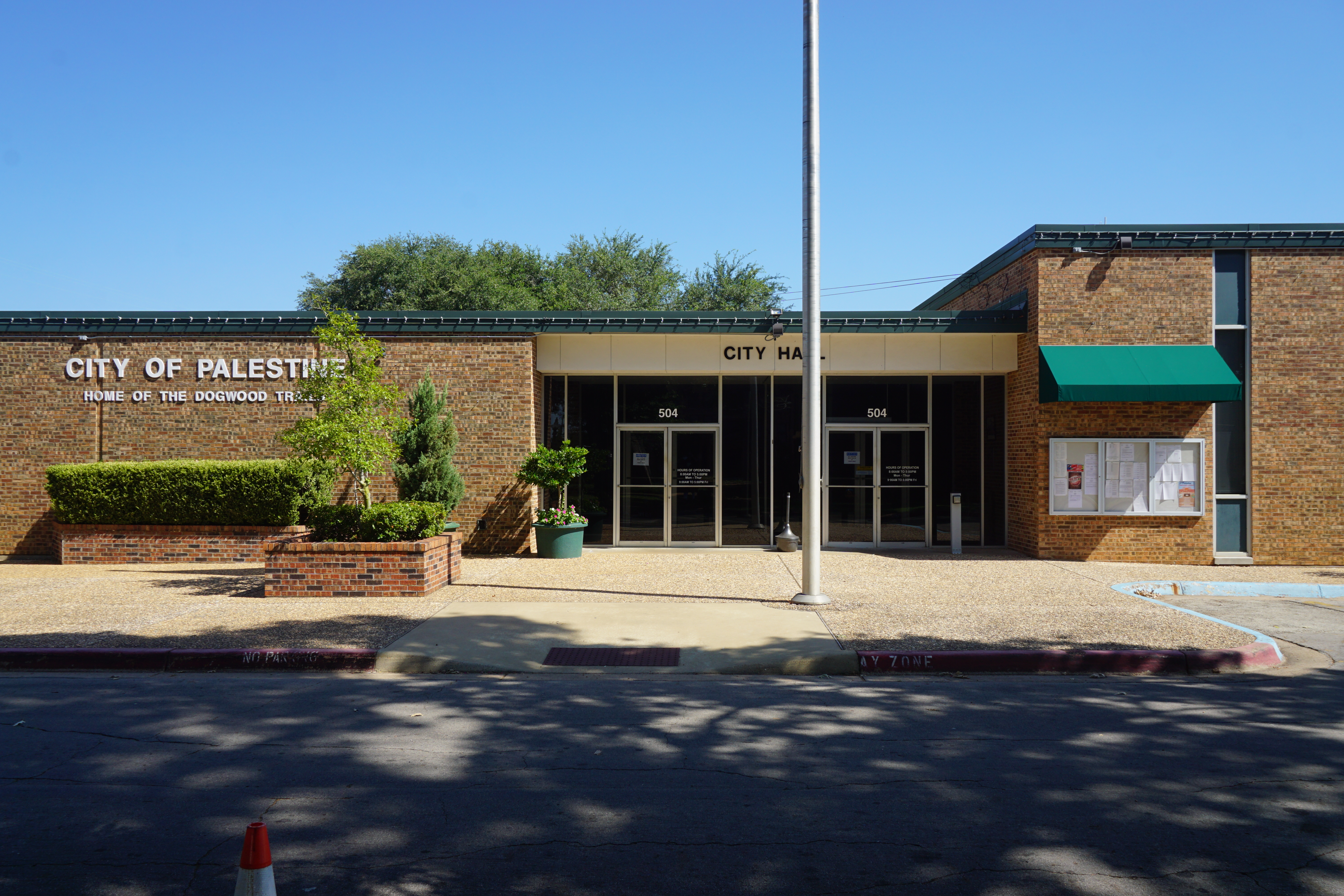 Palestine City Hall in Palestine, Texas (United States).